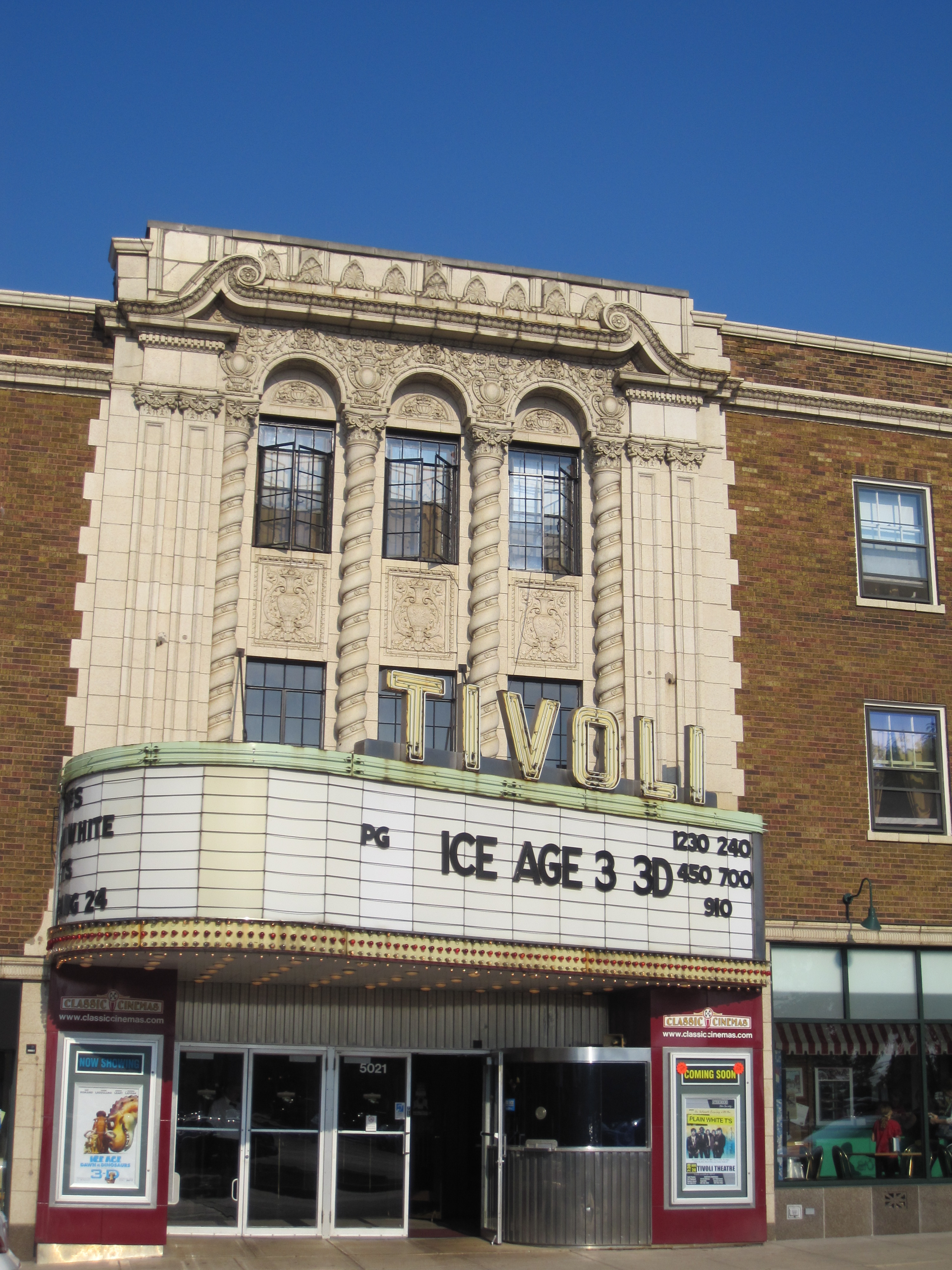 Tivoli Theater, in downtown Downers Grove, announcing Ice Age 3 in 3-D on the marquee